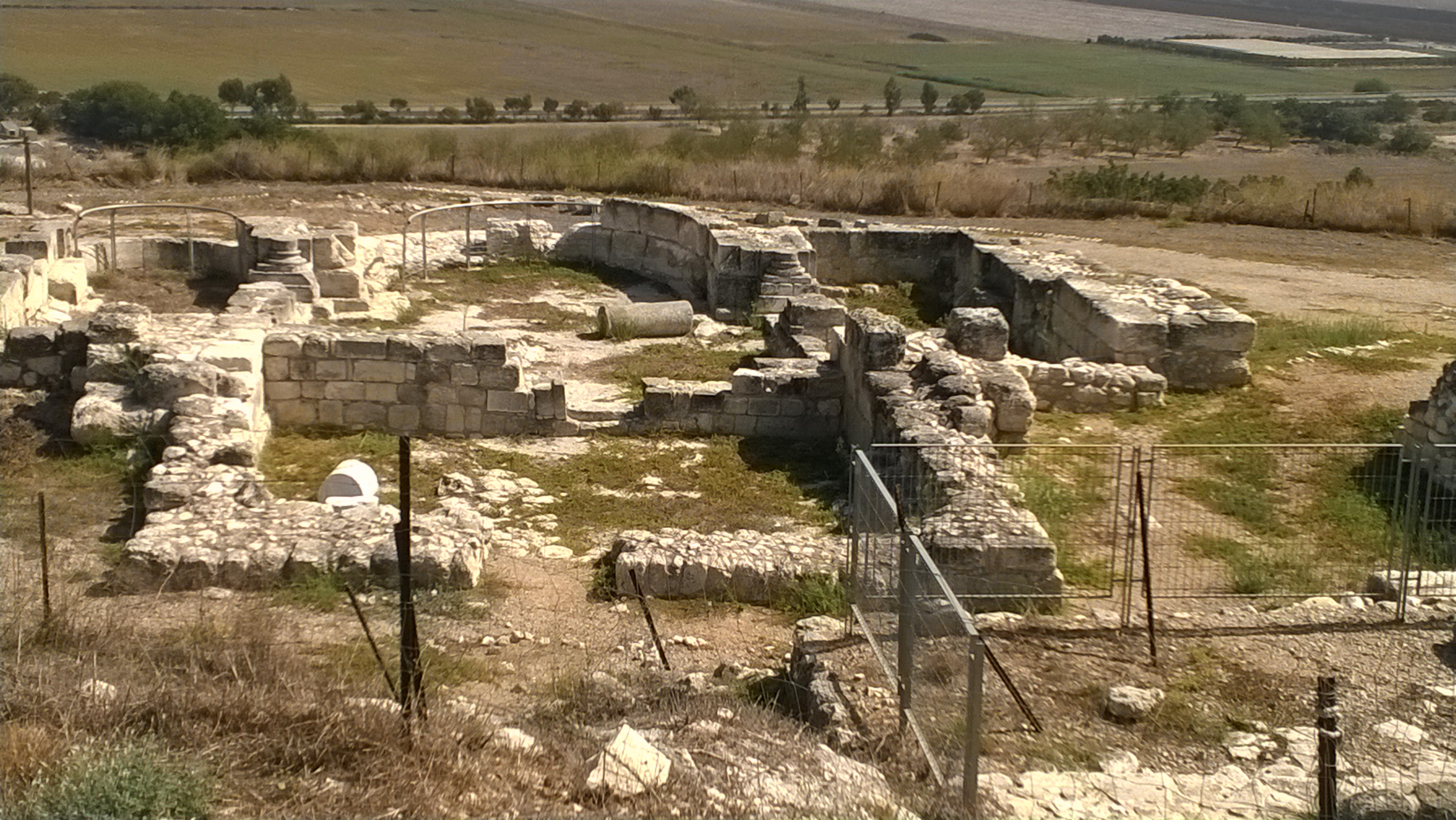 Tel Yokneam